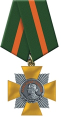 Order of Suvorov (Russia)